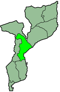 Map of the Sofala Province in Mozambique; Created with the GIMP